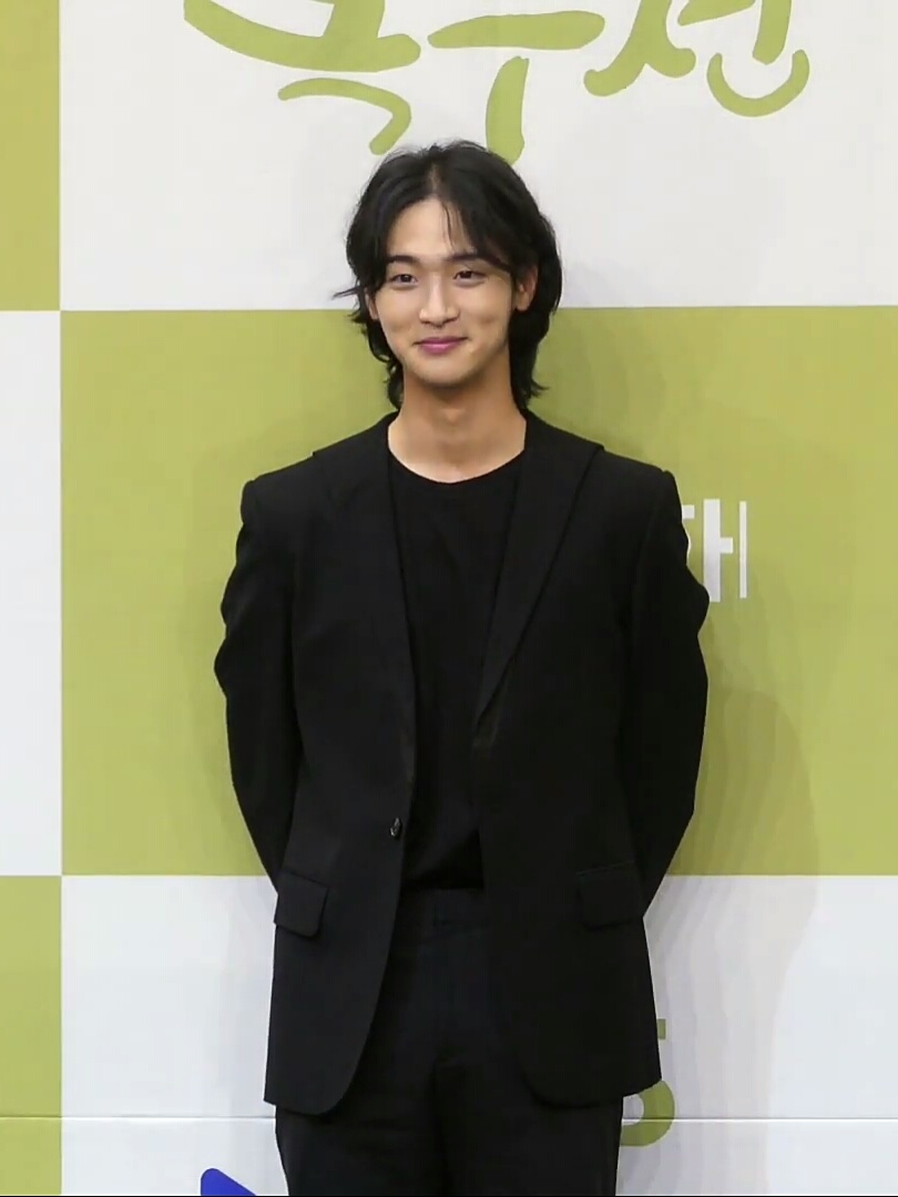 Jang Dong-yoon at The Tale of Nokdu press conference on September 30, 2019.